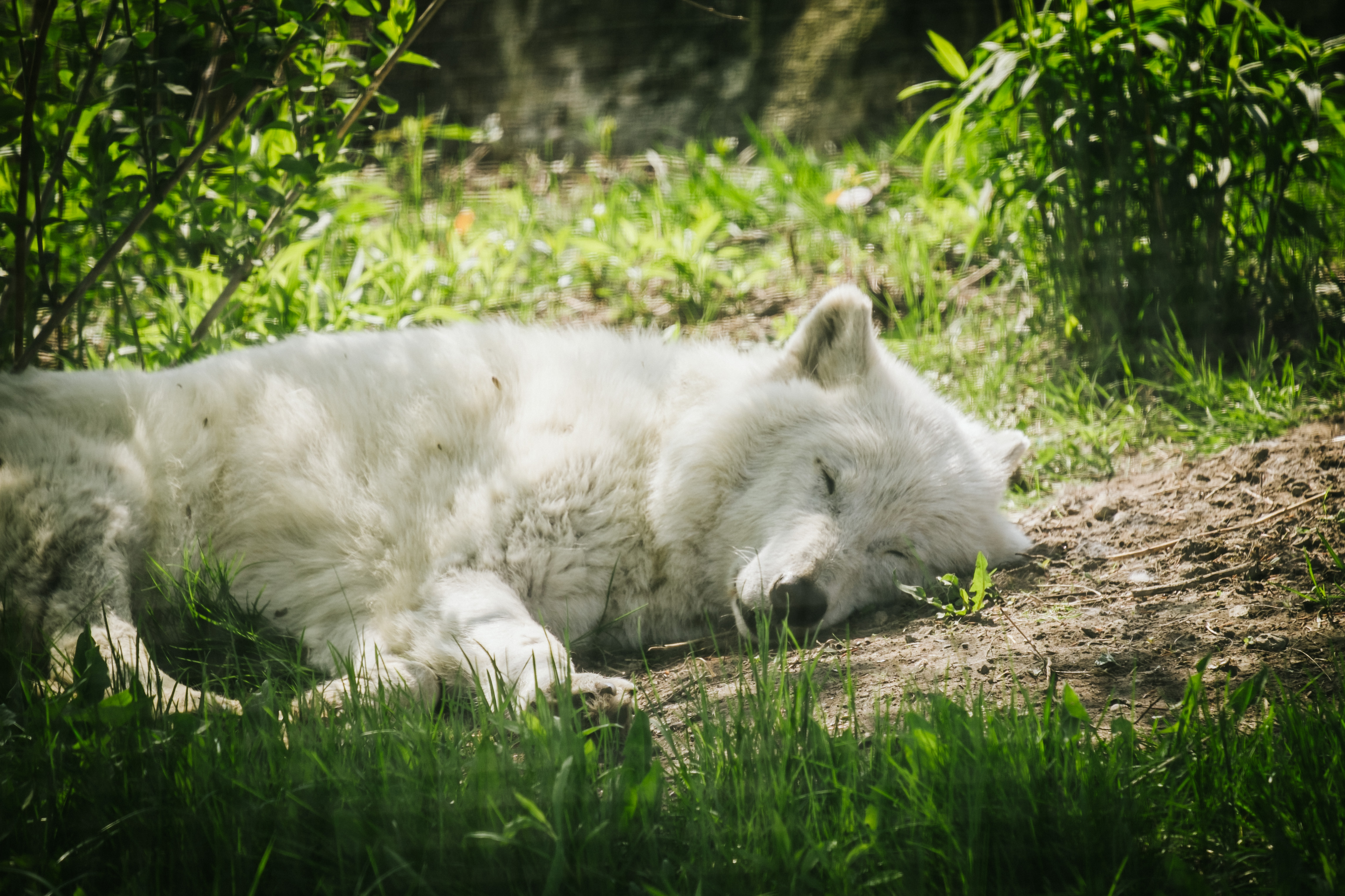 A sleeping arctic wolf Picture is a bit hazy because I shot it through some metal caging. Toronto Zoo, Ontario, Canada